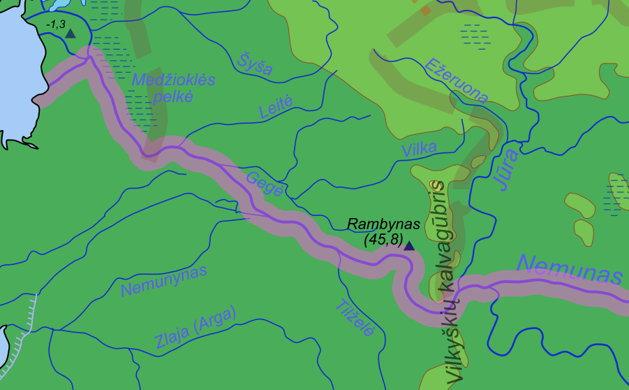 Rambynas hill Created from Image:LithuaniaPhysicalMap-en.svg